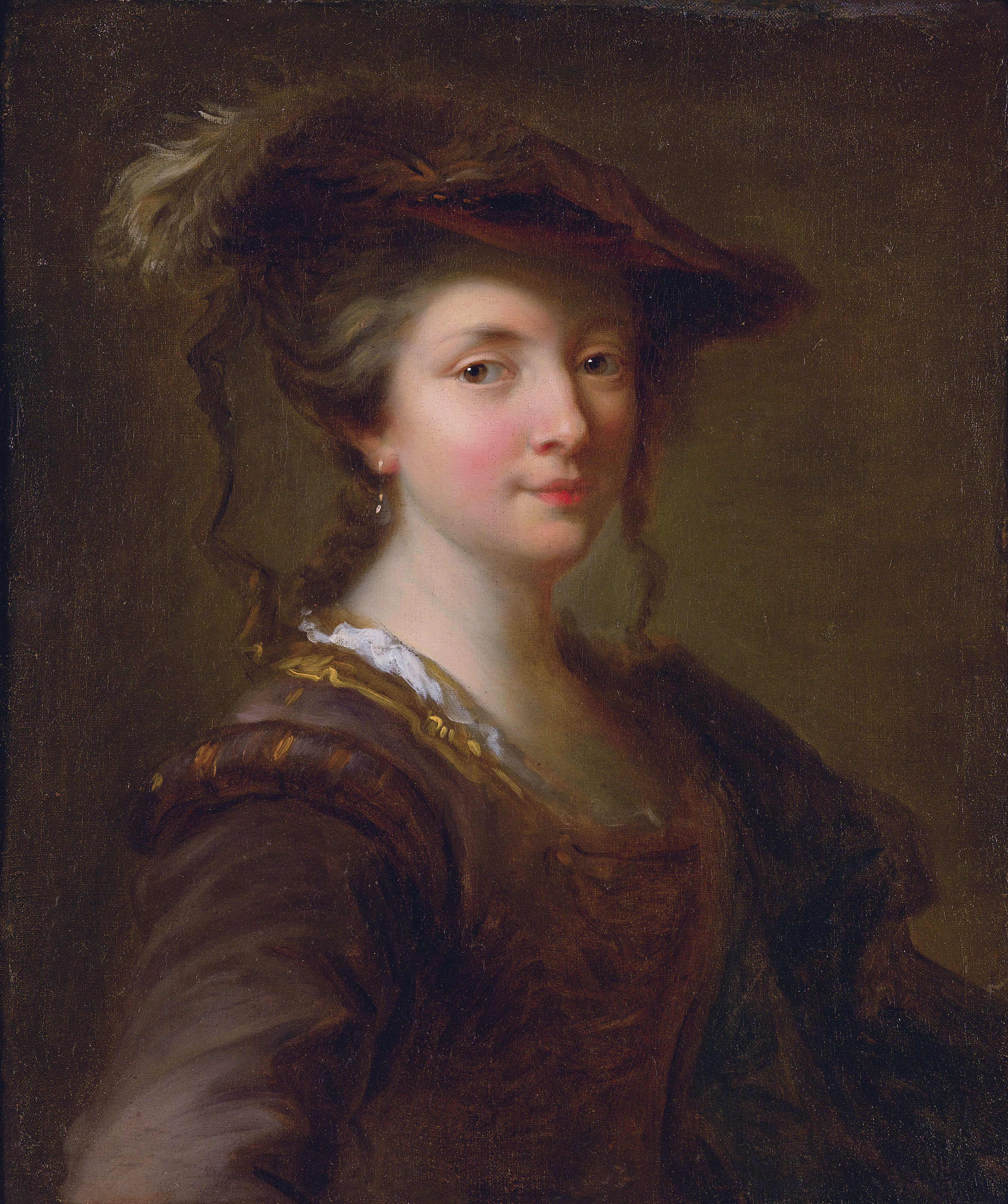 Portrait of a Lady, said to be Louise Julie de Nesle, Comtesse de Mailly (1710-1751)